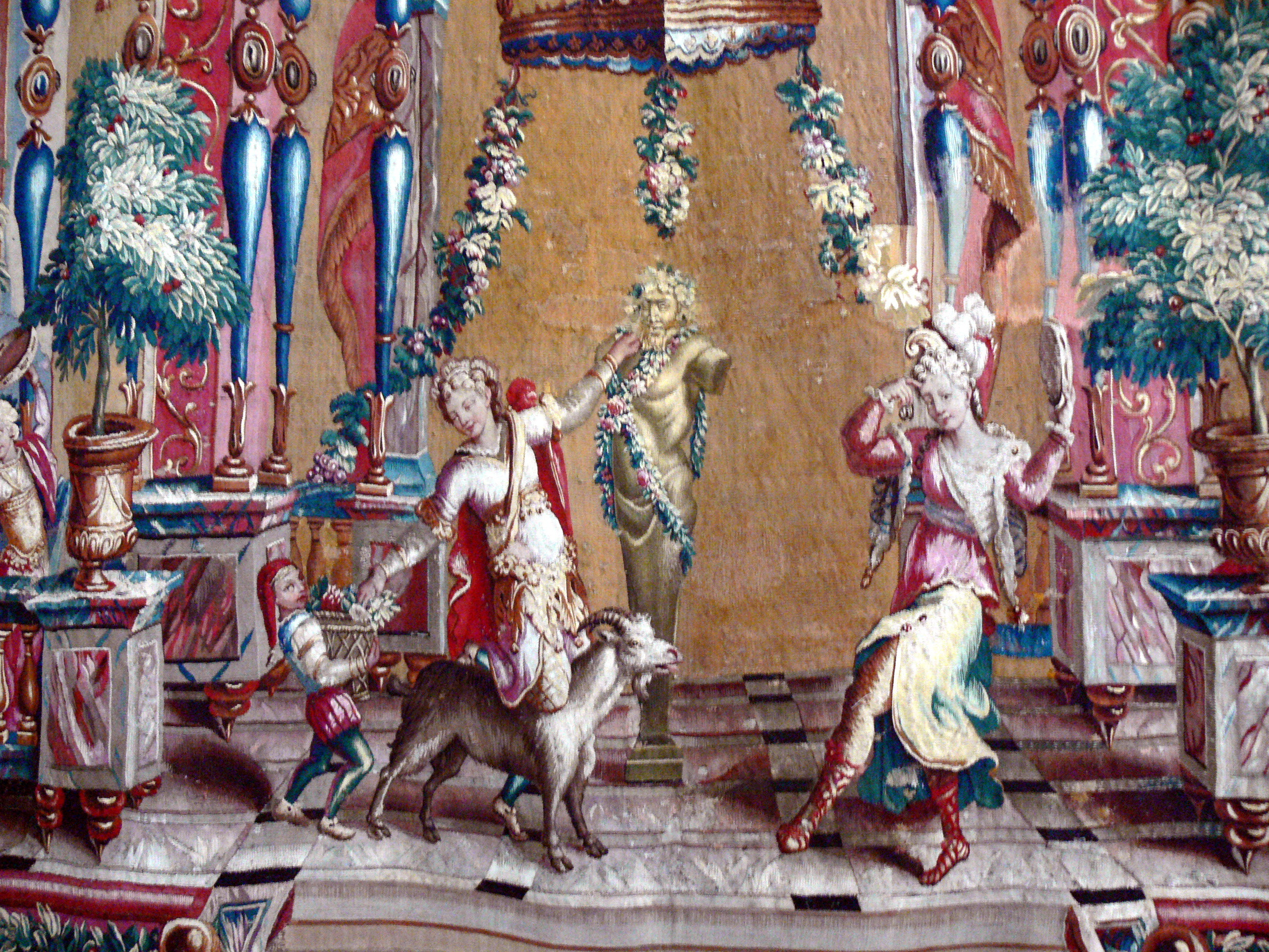 Kronborg castle. Tapestry ( 1700 ) from Beauvais made by Jean Behagle. Detail showing dancers in front of a Pan statue